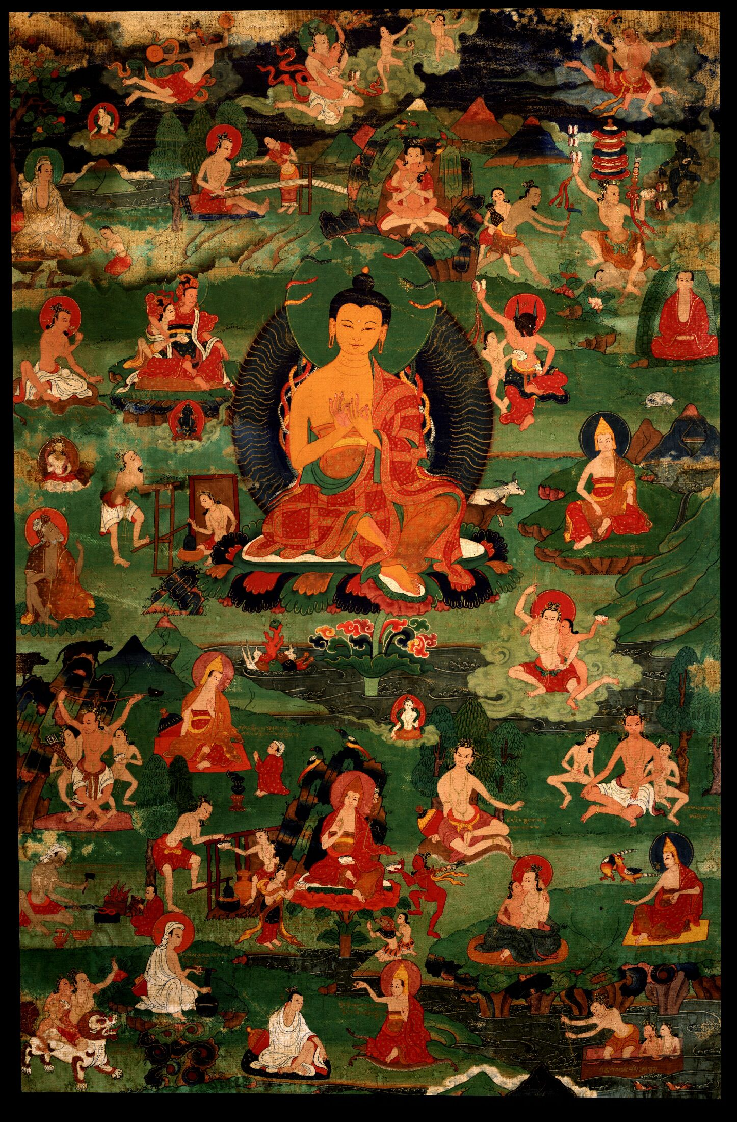 Nagarjuna with Thirty of the Eighty-four Mahasiddhas.